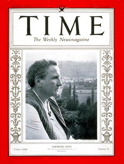 Time magazine, Volume 22 Issue 11, September 11, 1933 The cover shows Gertrude Stein.